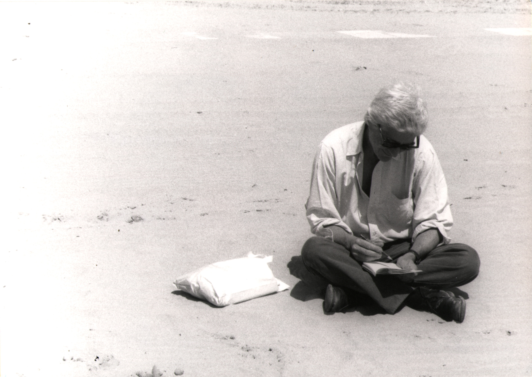 Luca Scacchetti